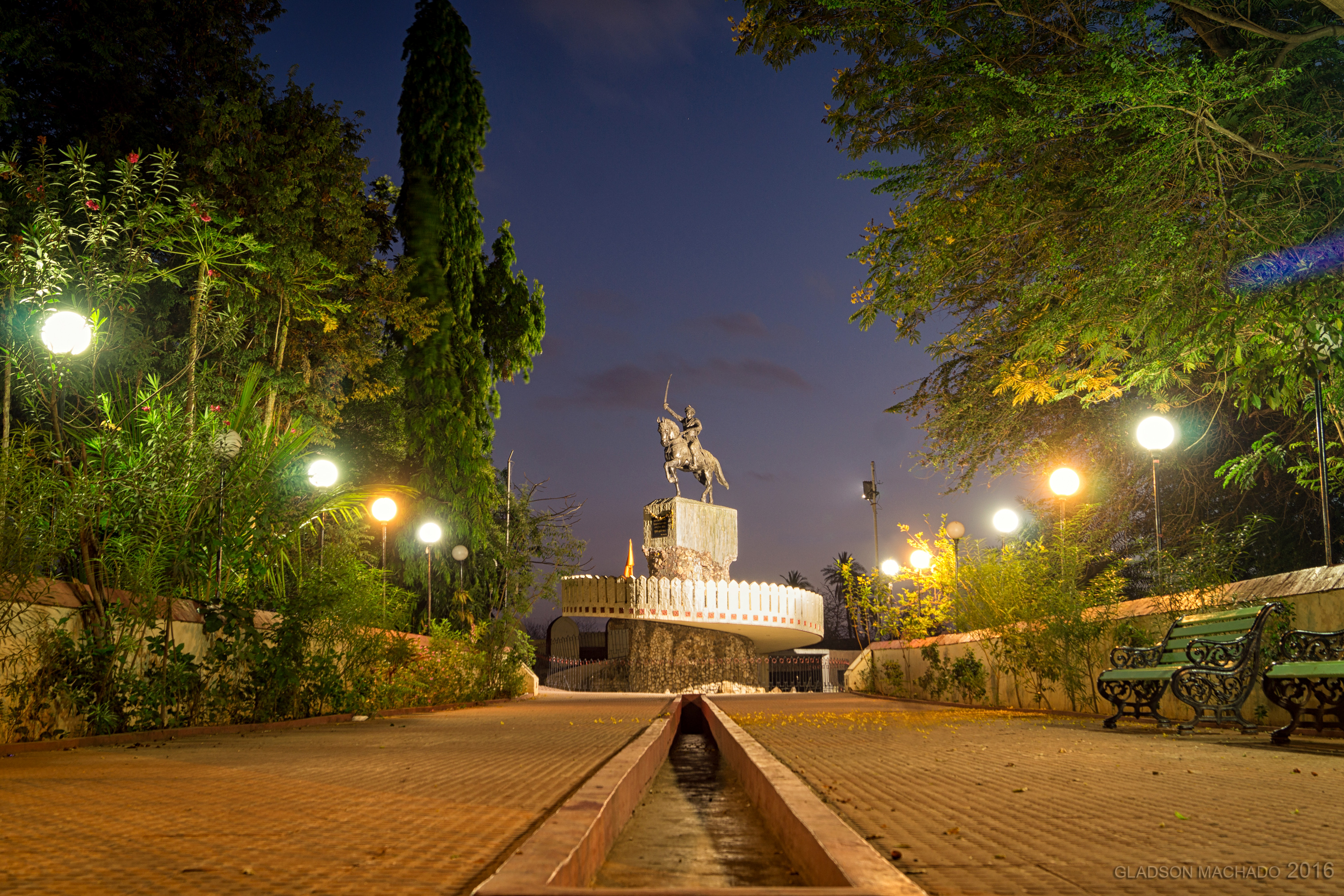 Maratha General Chimaji Appa memorial at Vasai Fort as seen before sunrise.